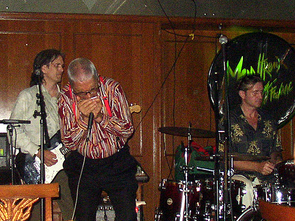 Claude Nobs on stage with the Charlie Morris Band at the 2007 Montreux Jazz Festival